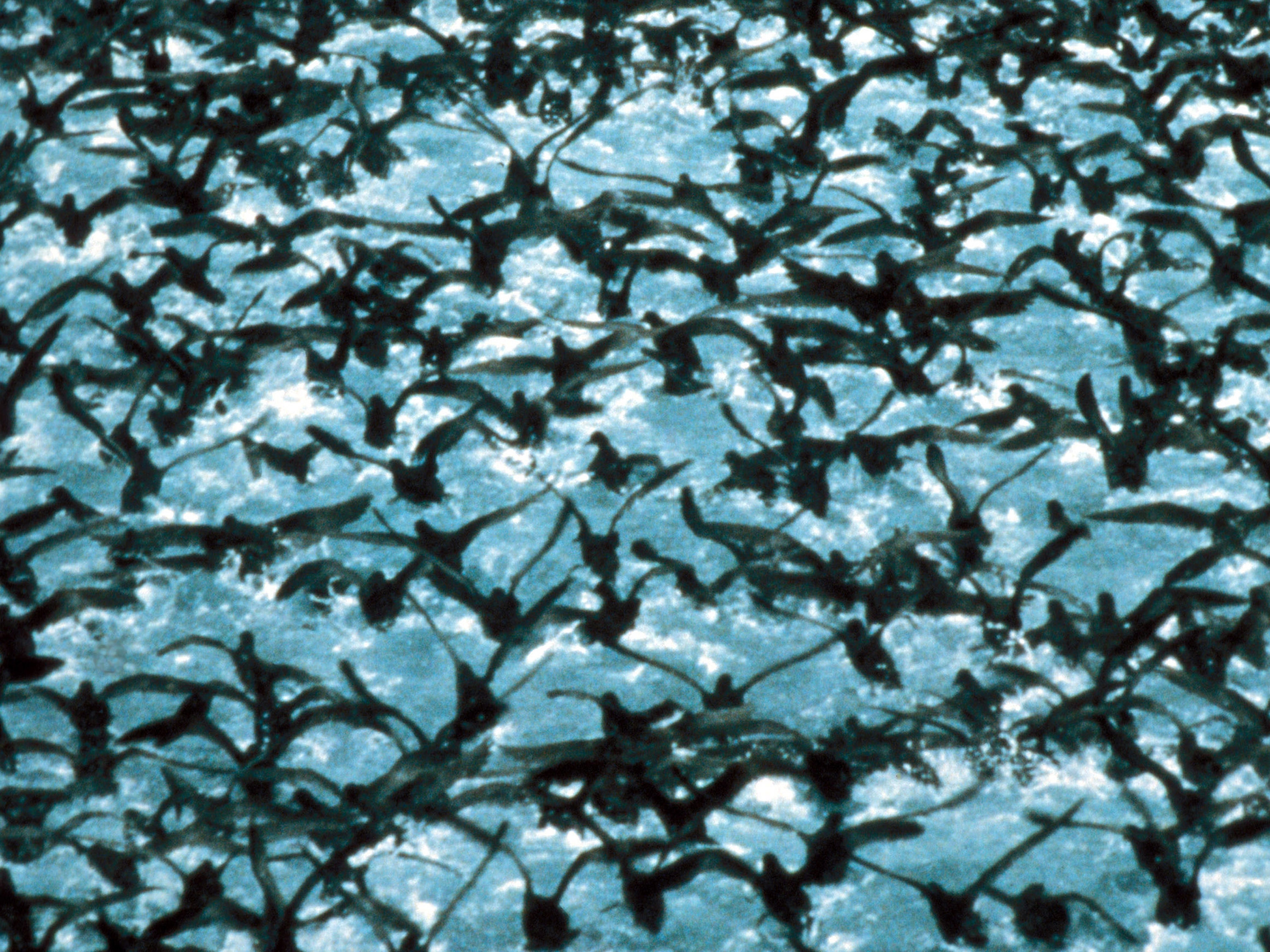 A flock of migrating shearwaters fills the sky at Unimak Pass on the Alaska Maritime National Wildlife Refuge. (USFWS)